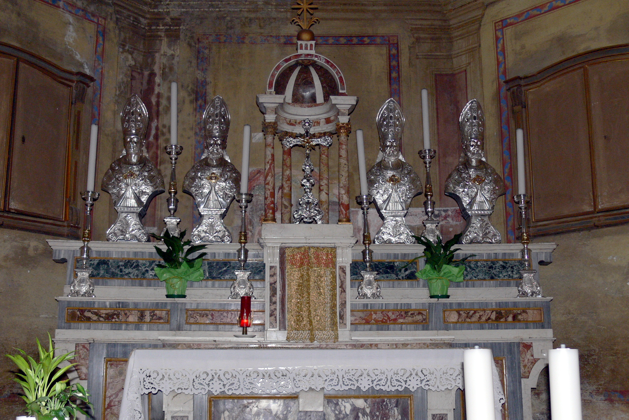 Palagnedra ( Locarno ). Saint Michael parish church - High altar.